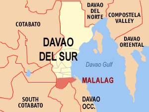 Map of the Davao del Sur showing the location of Malalag